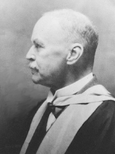 Ronald Ross Ronald Ross, one of the discoverers of the malaria parasite.